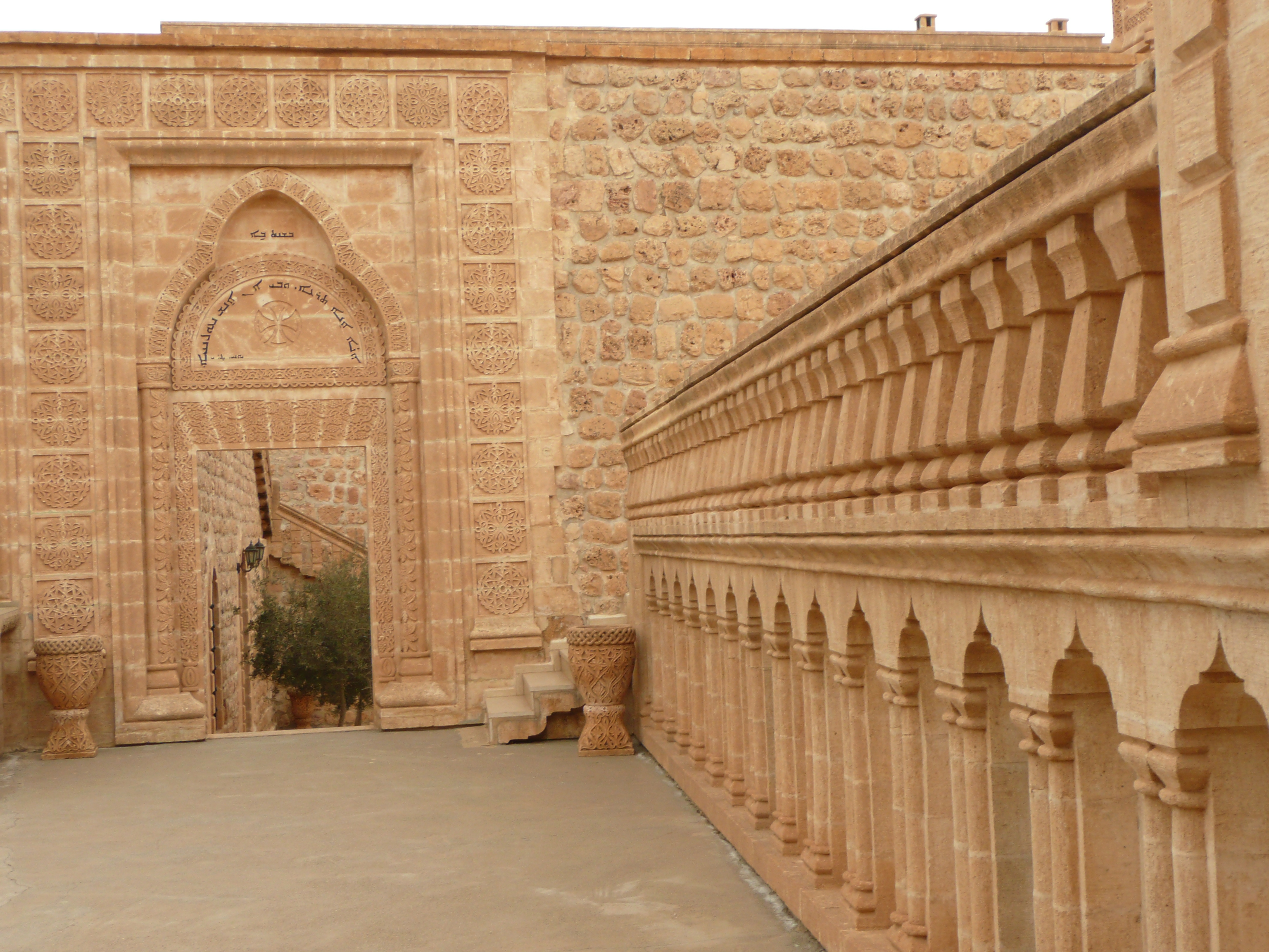 Photographs from Deyrulumur (Mor Gabriel Monastery) , Midyat, Turkey.